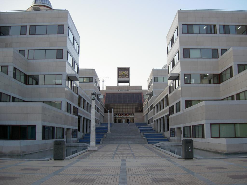 Buildings at POSTECH